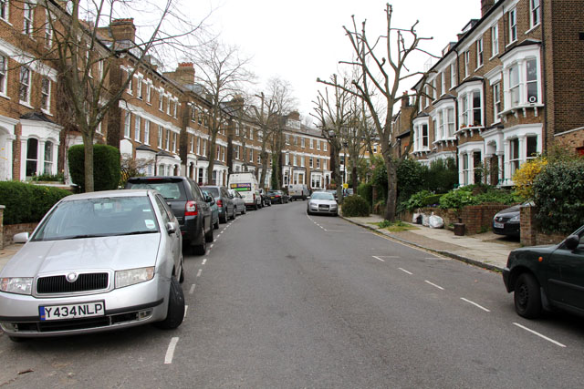 South Hill Park Gardens, Hampstead, west side looking north adjacent to the path to the pond.